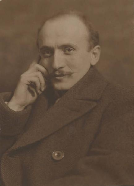 Emilio Sommariva, portrait of Giuseppe Palanti, 1912